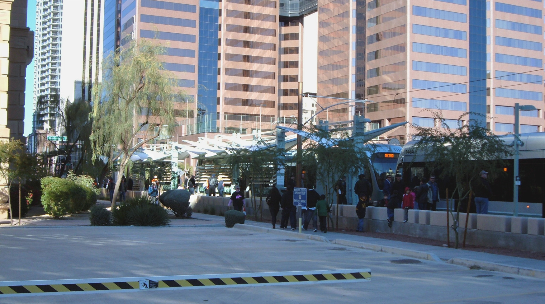 Photograph of the Downtown Phoenix (or 1st Avenue at Jefferson) Station of METRO Light Rail that serves the Phoenix area, Arizona, USA. This is the southbound station, located about 800 feet southwest of the northbound station. This photograph was taken during the light rail's grand opening celebration on December 27, 2008.